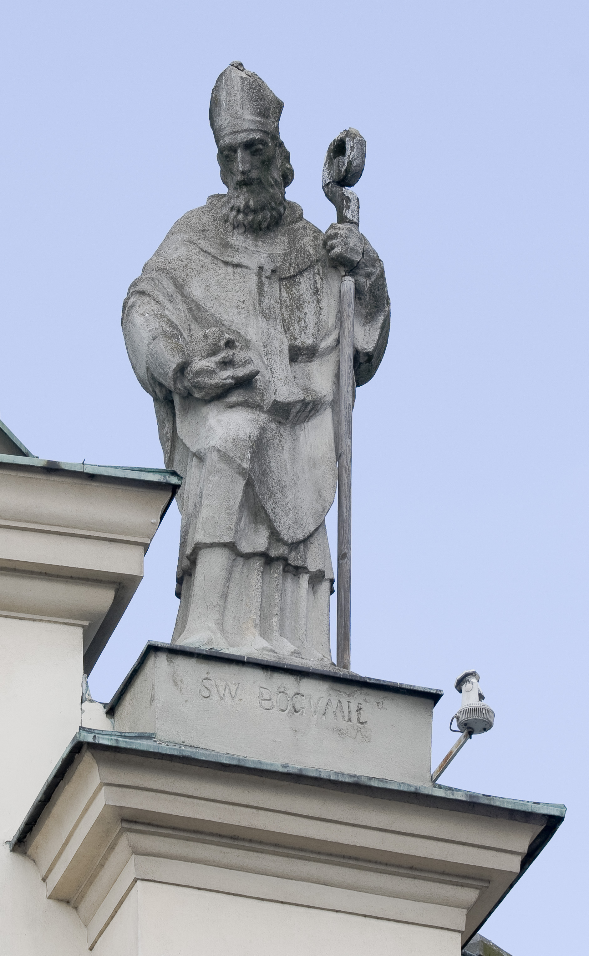 Statue of Bogumil, Gniezno Cathedral, Poland